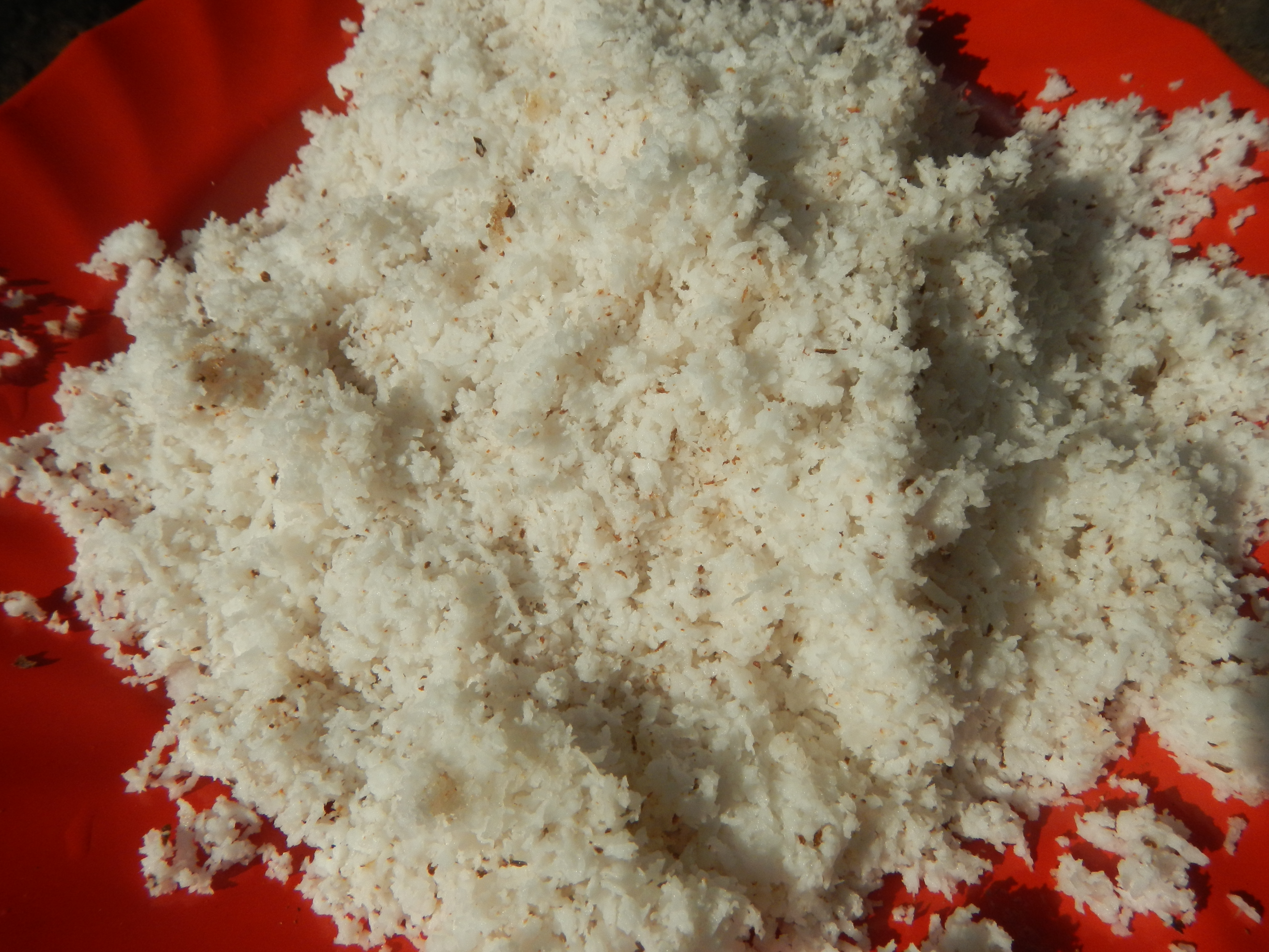 List of Philippine dishes Cuisine of Bulacan Foods Fruits photos taken in Barangay Poblacion 14°57'17"N 120°54'2"E Baliuag, Bulacan, Bulacan province (Note: Judge Florentino Floro, the owner, to repeat, Donor Florentino Floro of all these photos hereby donate gratuitously, freely and unconditionally all these photos to and for Wikimedia Commons, exclusively, for public use of the public domain, and again without any condition whatsoever).